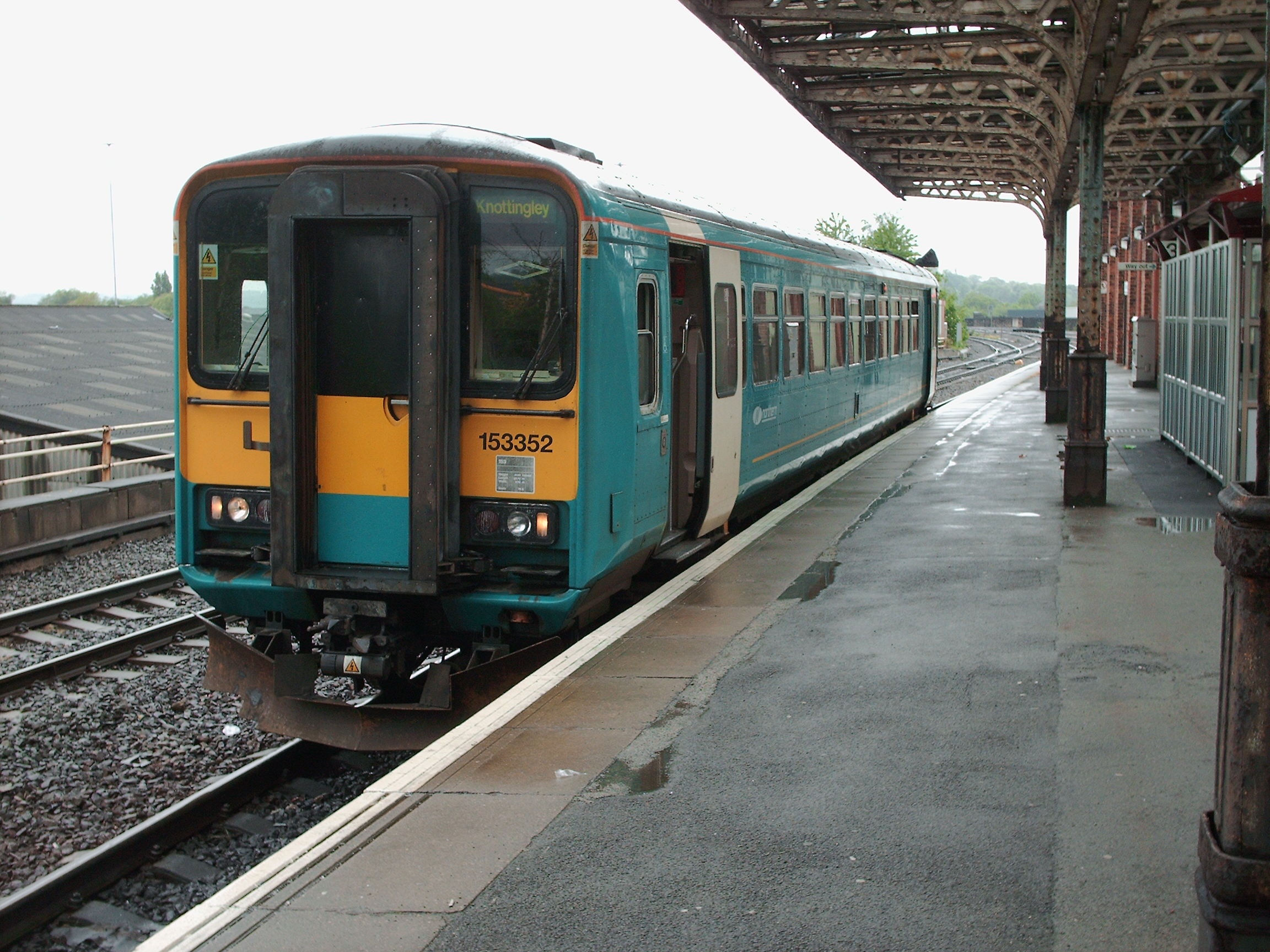 153352 DMU at platform 3 of Wakefield Kirkgate railway station, West Yorkshire, England.